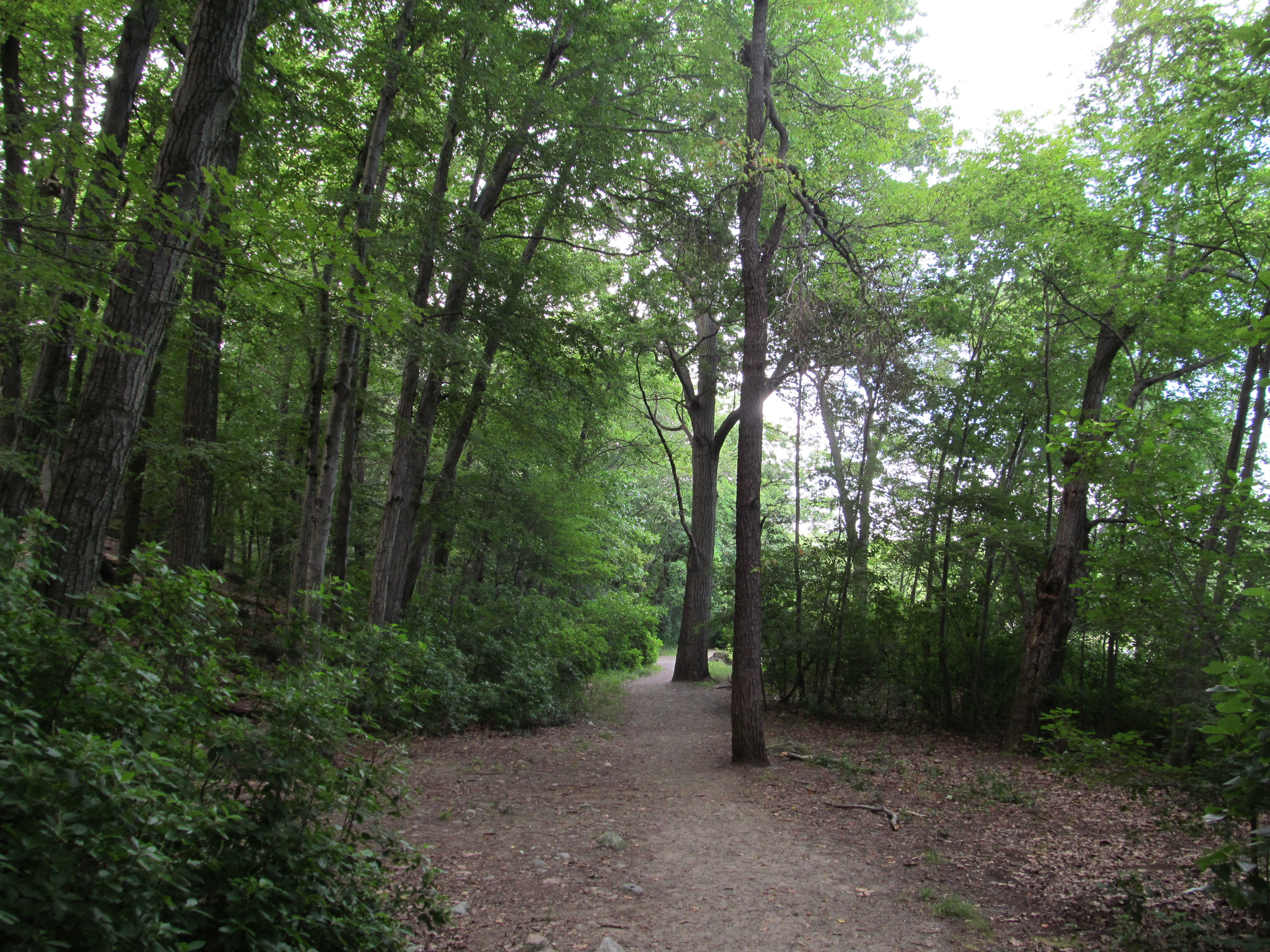 Hammond Pond Reservation, Chestnut Hill Massachusetts